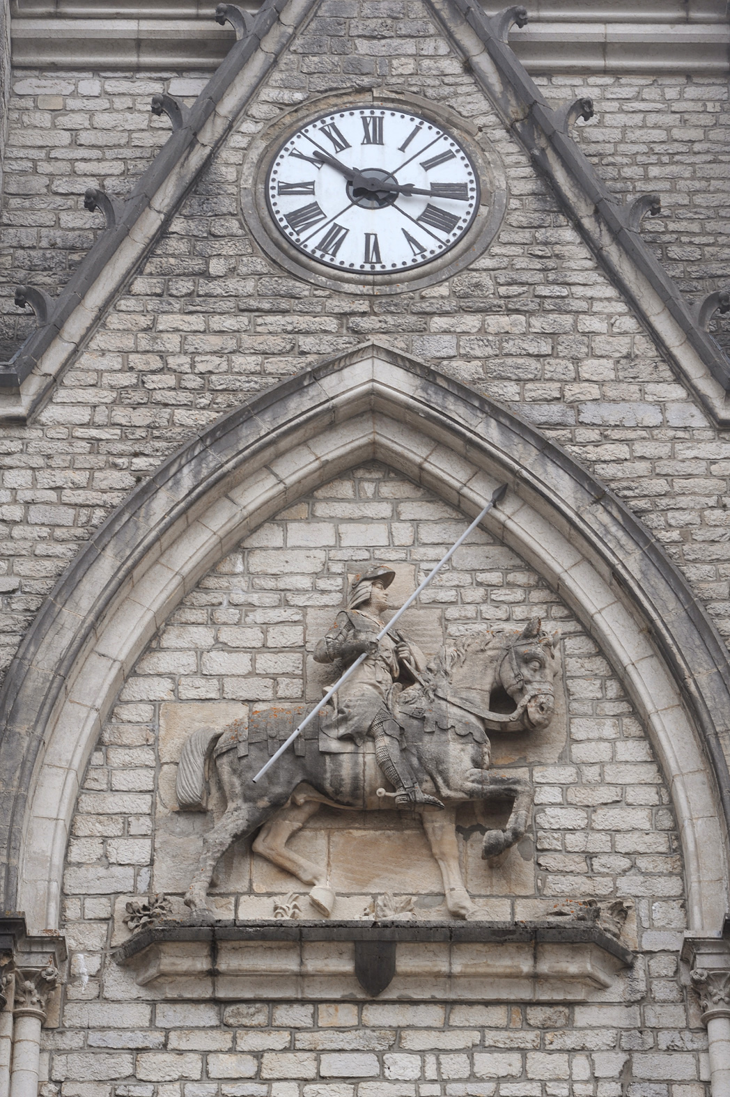 Steeple, front with knight and church clock; Montbenoît, France.